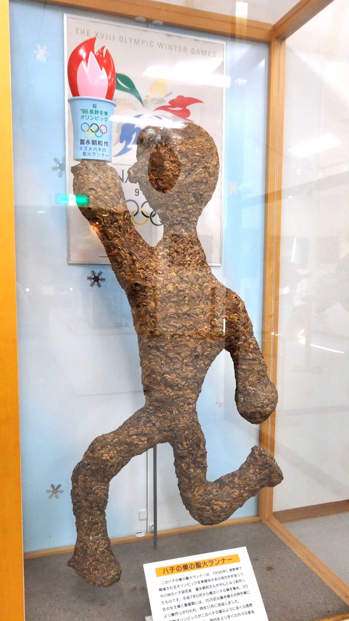 Photograph of torchbearer hornet's nest by Bee Museum, is museum in Nakagawa Village, Nagano Prefecture, this photo date is November 8, 2009.